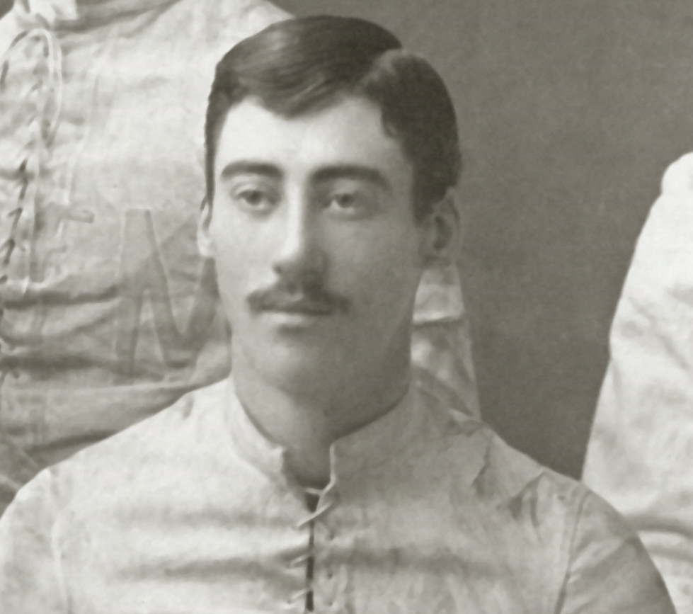 Photograph of the John Duffy, University of Michigan football team captain